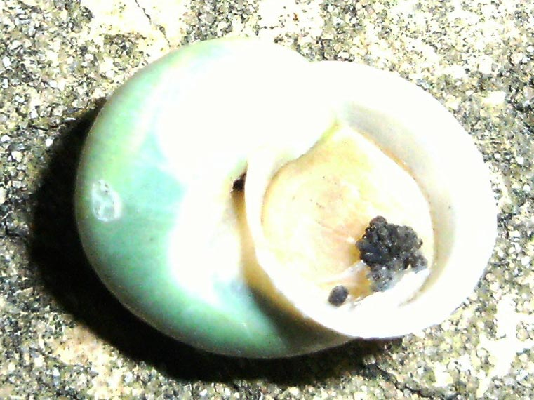 Leptopoma perlucida (Grateloup, 1840) (synonym: Leptopoma nitidum )(Cyclophoridae) at park of Ginowan City, Okinawa, Japan.